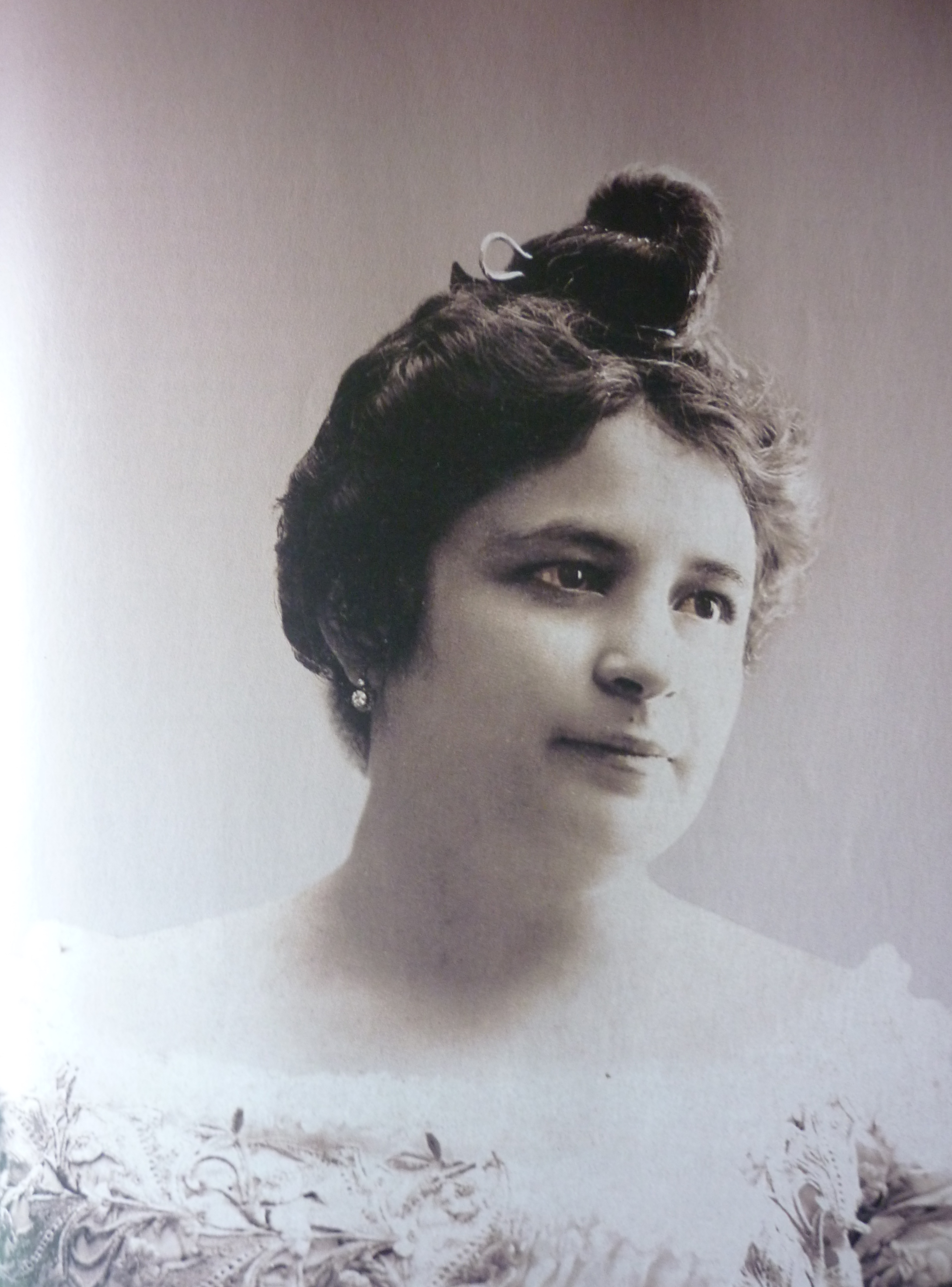 Concepcion Gonzalez Fortis, wife of the general Tomas Regalado